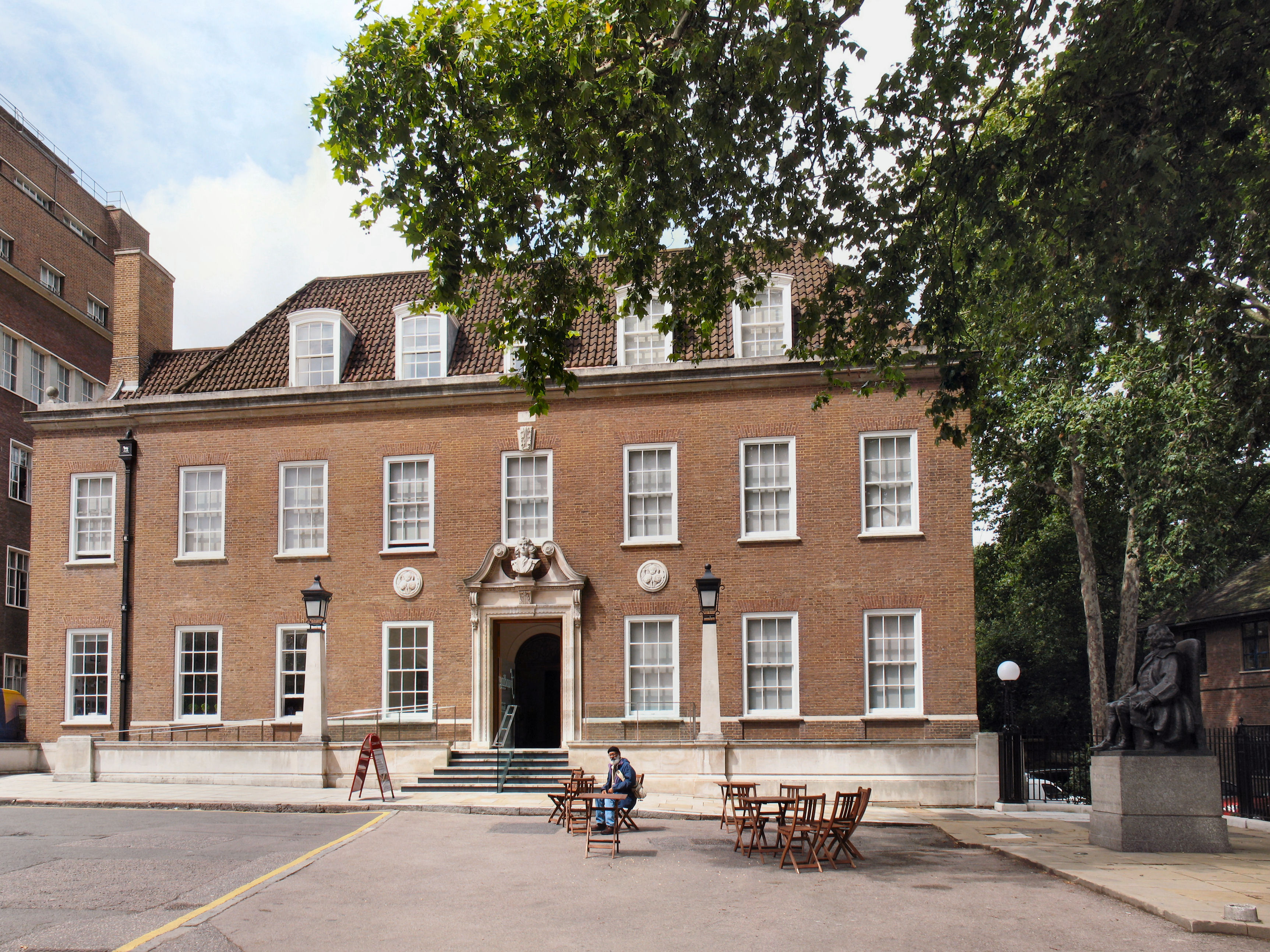 Foundling Museum in Brunswick Square, London, England.